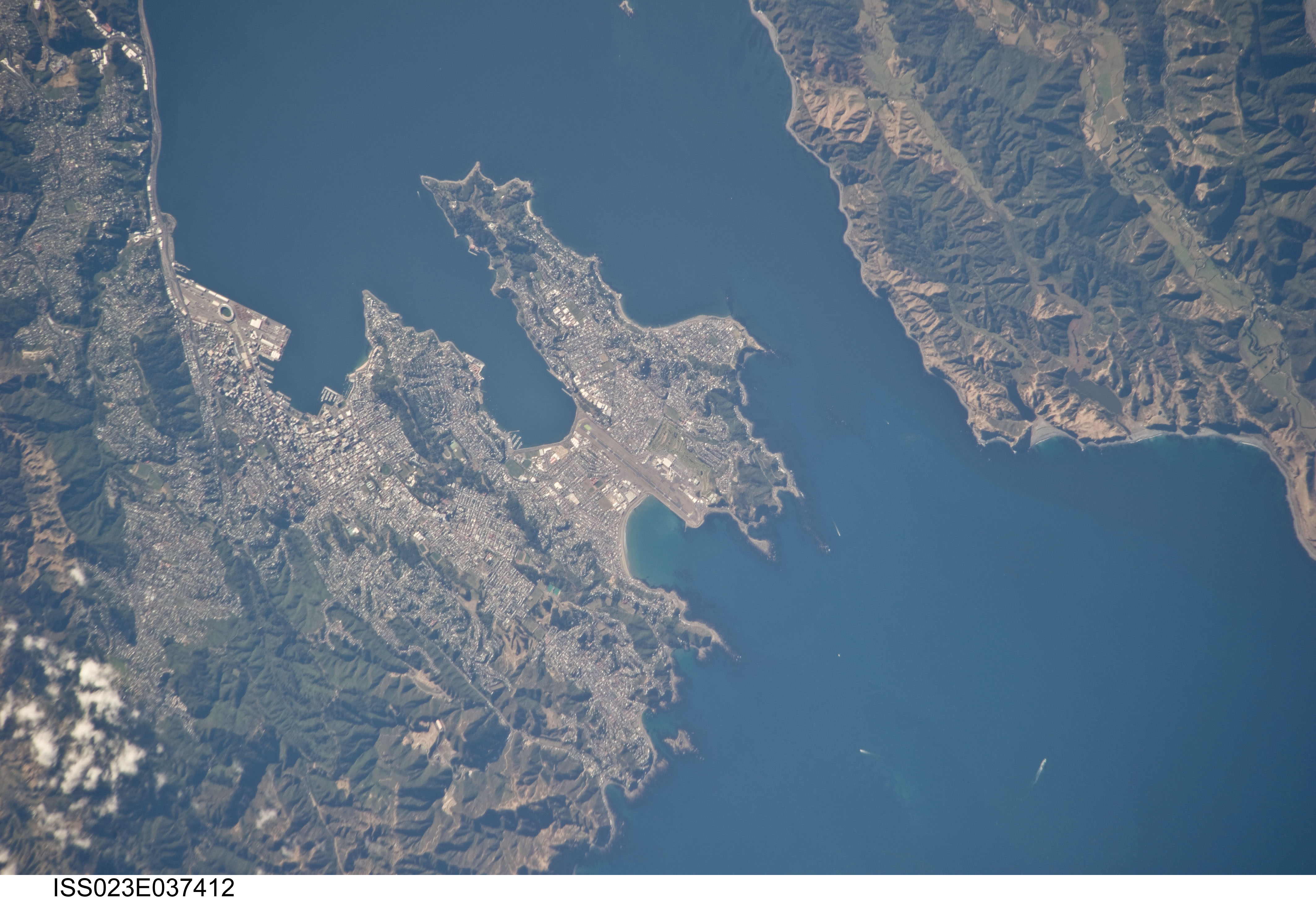 Astronaut Photo of Wellington, New Zealand taken from the International Space Station (ISS) during Expedition 23 on May 9, 2010.